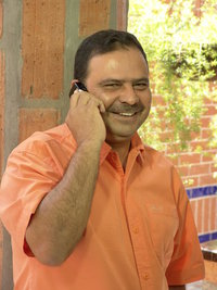 Oscar de Jesús Suárez Mira